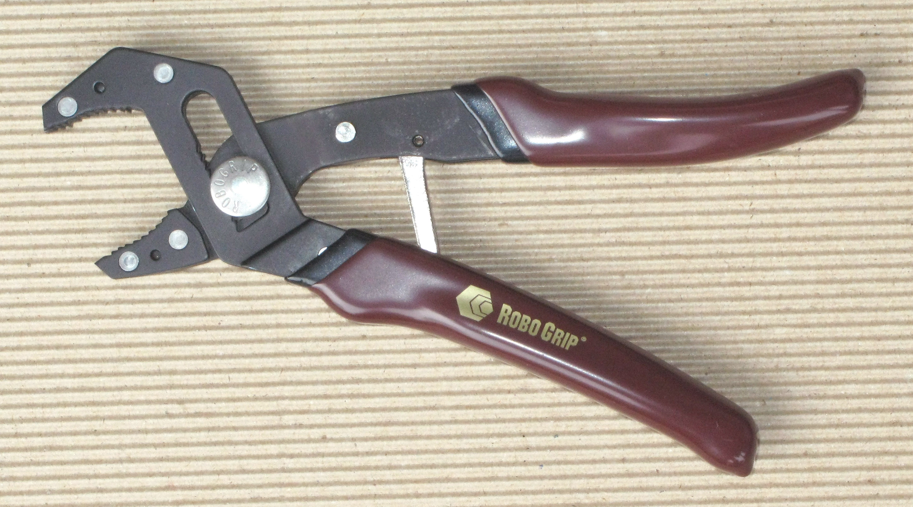 ROBOGRIP Slip-Joint Pliers. made in china.